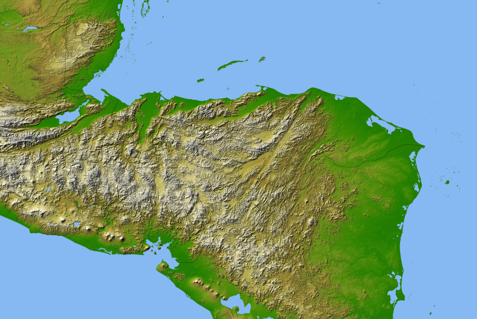 Topography of Honduras